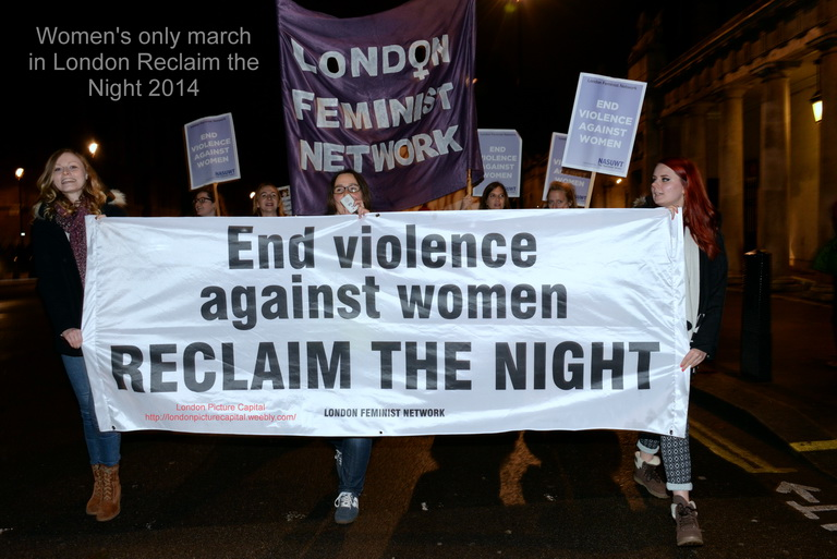 London,UK,22th November 2014 : Women march in Central London. It is part of an ongoing international campaign protesting against rape and other forms of violence against women in UK alone two women kills in a weeks and over 300 rapes reported to the police's. Hardly one percent end in court and the women are to blame's. Photo by See Li